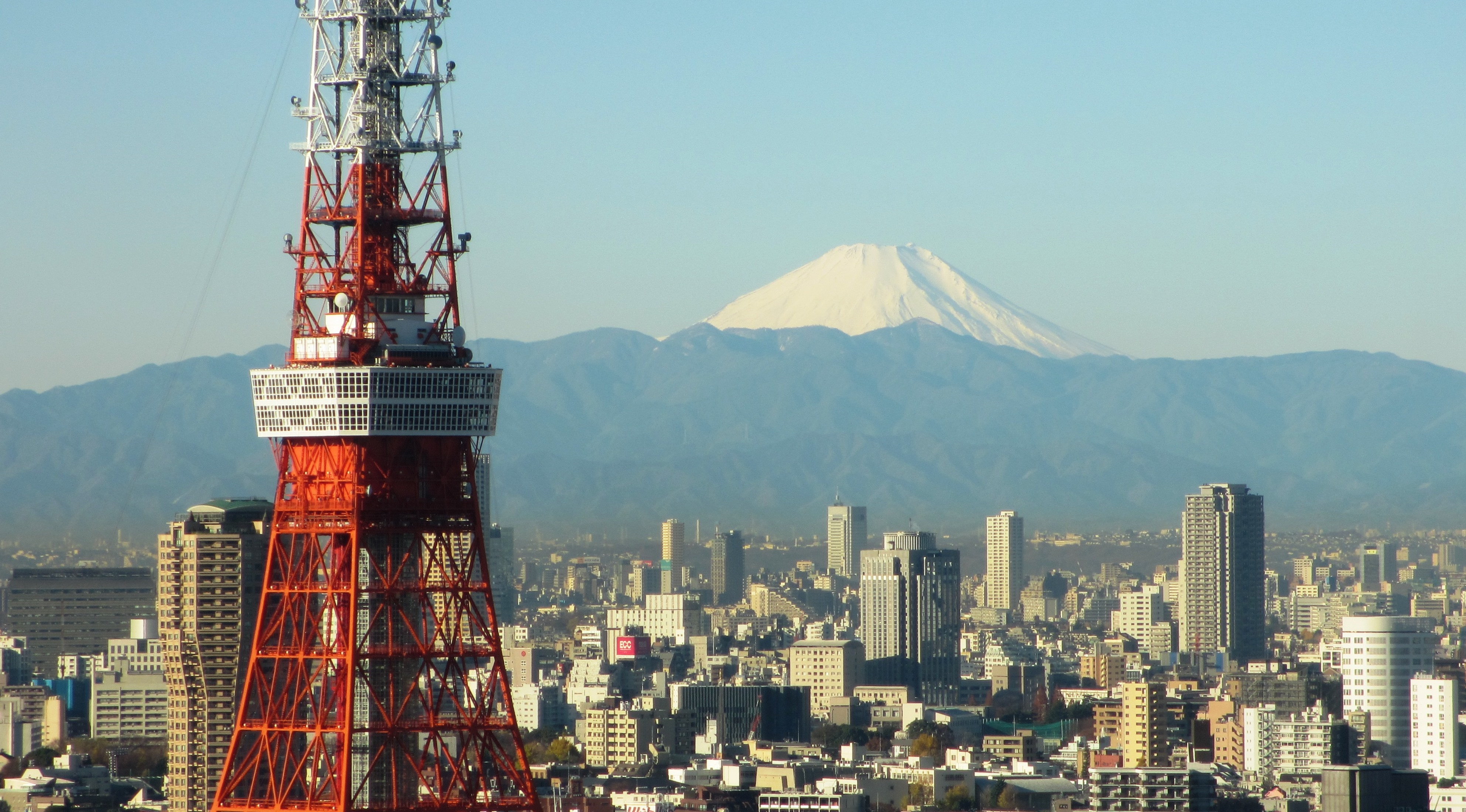 The Tokyo Tower with Fuji-san visible in the distance.